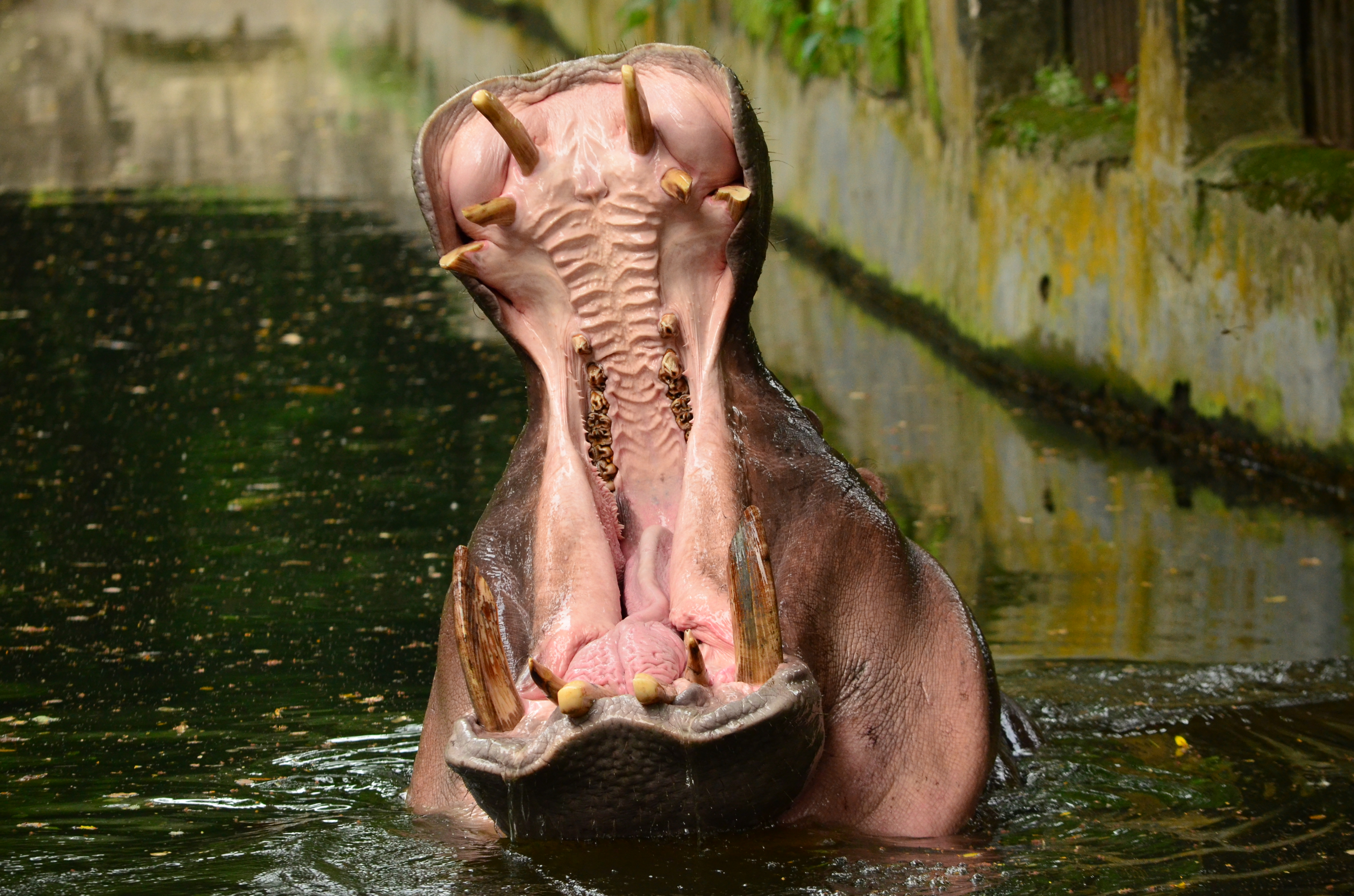 Hippopotamus Yawning in its Pool in Tata Steel zoo campus,Jamshedpur,Jharkhand